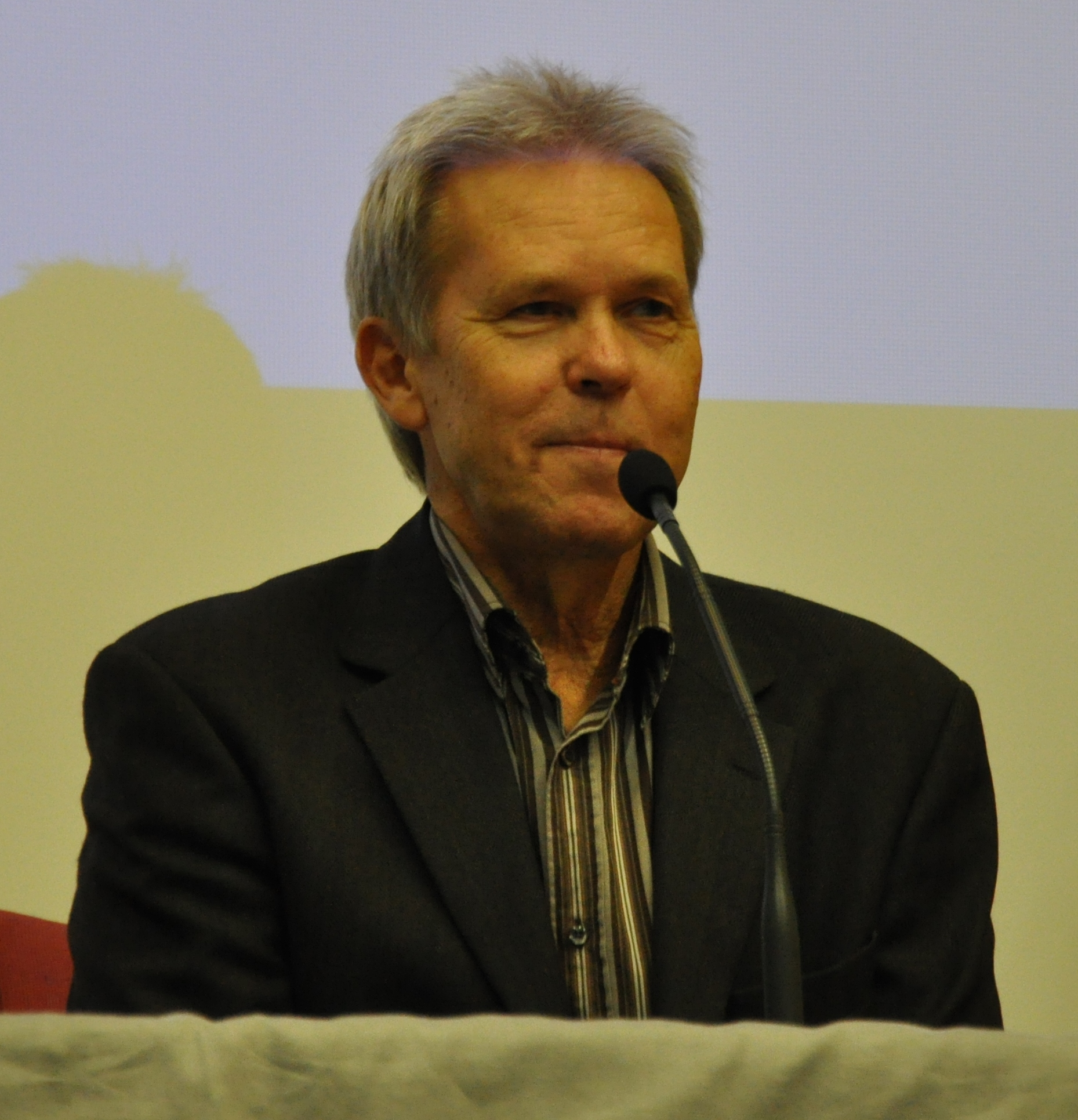 Finnish writer and cartoonist Mauri Kunnas at the Turku Book Fair 2009.